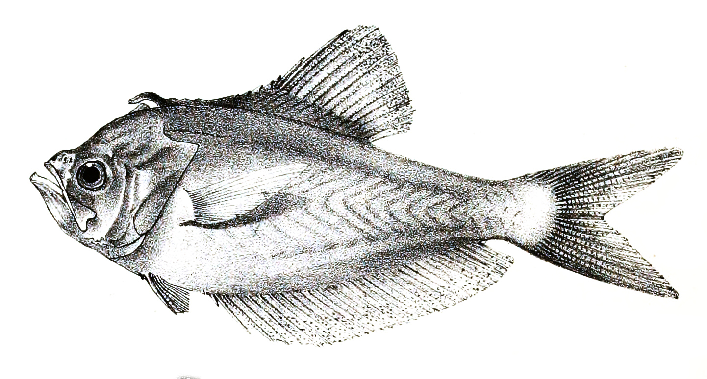 The species names / identity need verification. The original plates showed the fishes facing right and have been flipped here. Kurtus indicus male